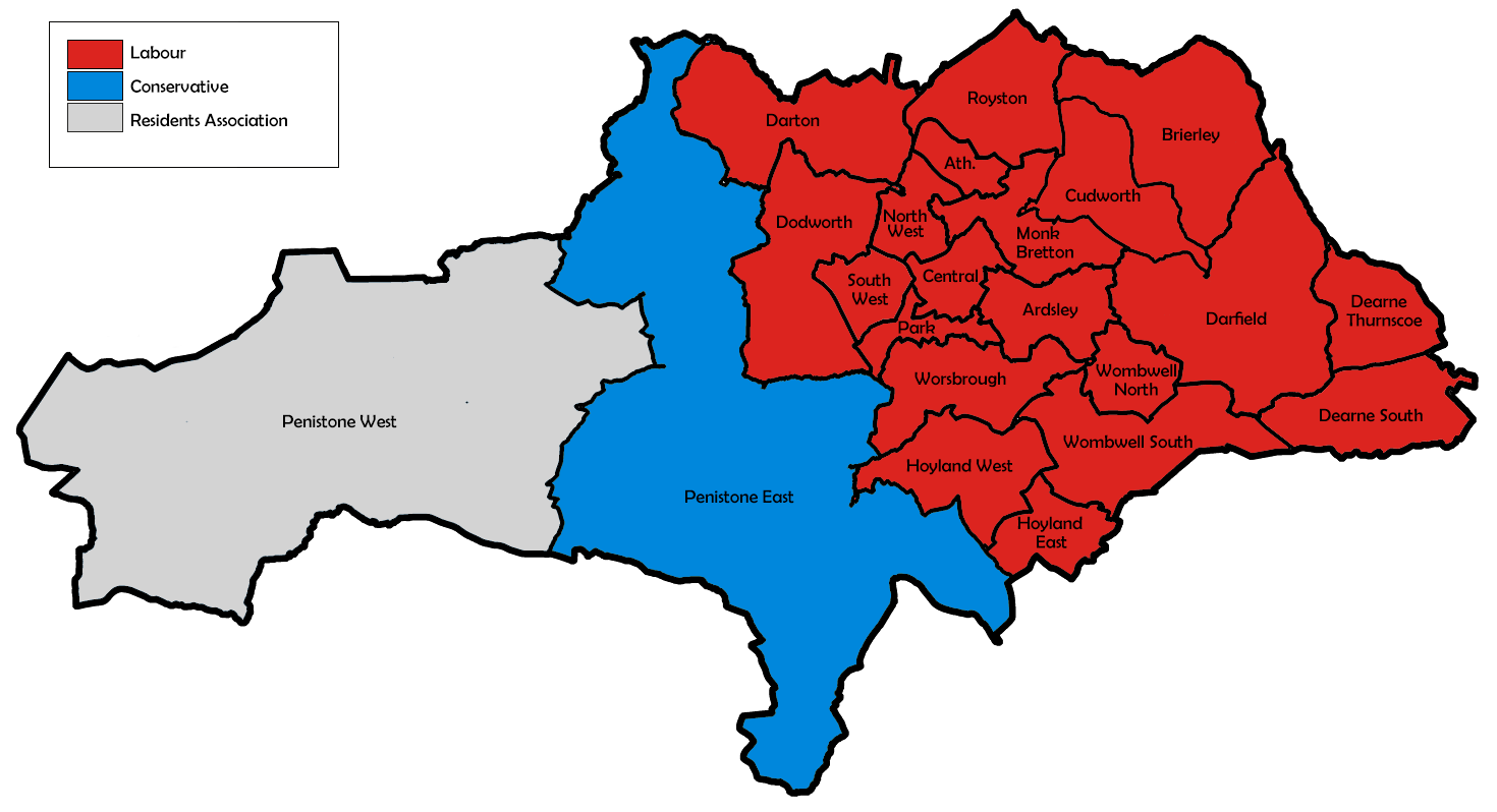 Ward map of Barnsley council with political colouring for the 1983 election.